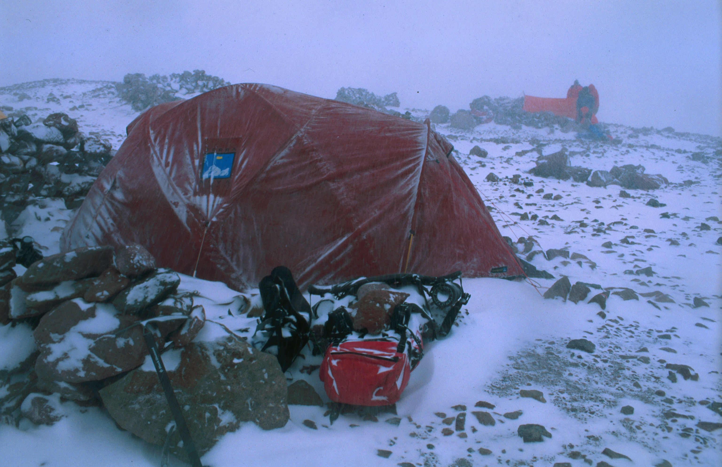 Camp 2 on the route to Mount Fitzroy (Cerro Chaltén), Argentina - Photographers Comment: "We spent about 6 days in this tent at nearly 20,000' whilst waiting for the weather to clear. We descended when we ran out of time, patience, spirit and food. No summit for us this year. A beach holiday in Thailand was looking like it would have been a better option!"